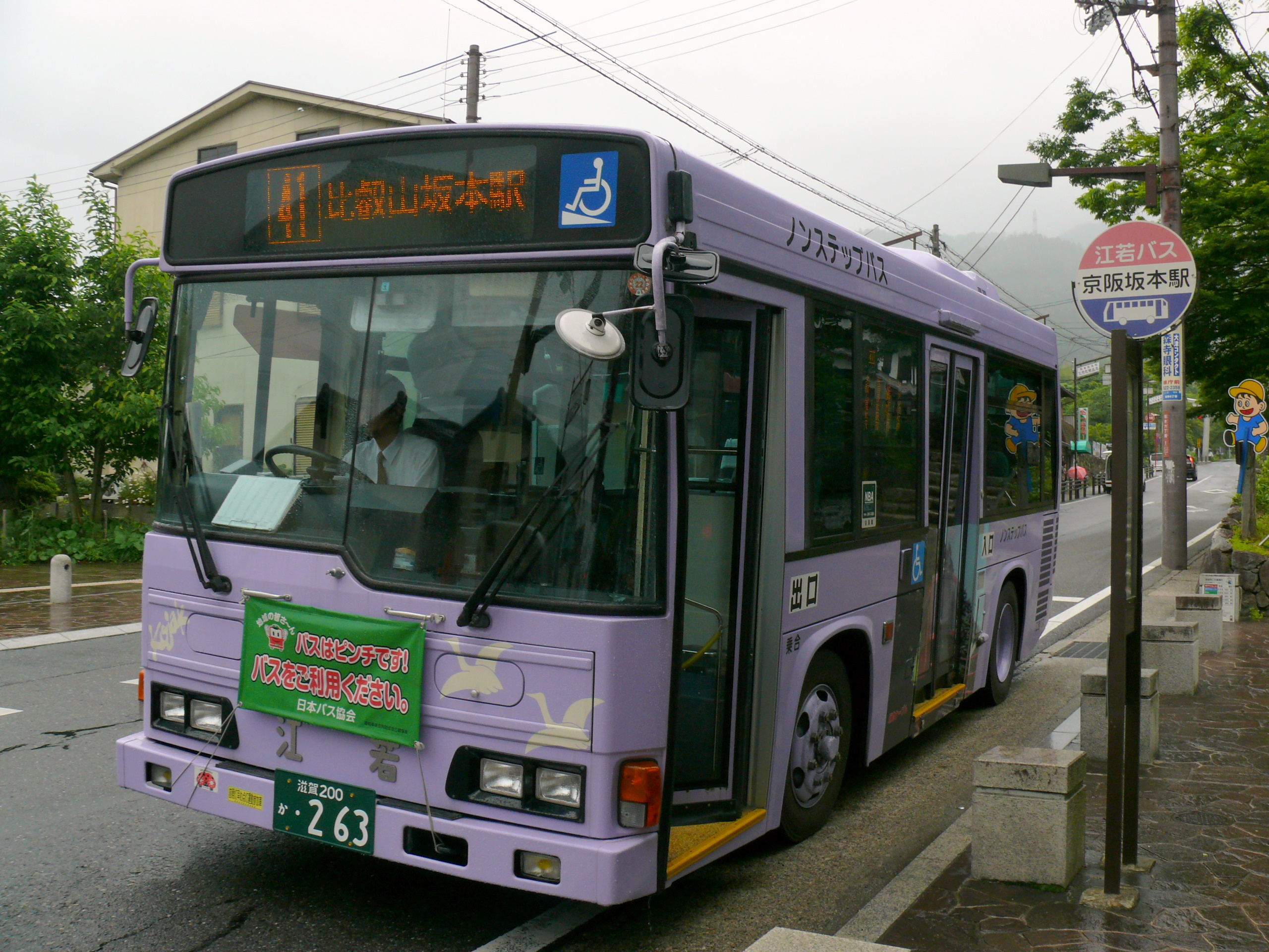 Kōjaku Kōtsū Bus.